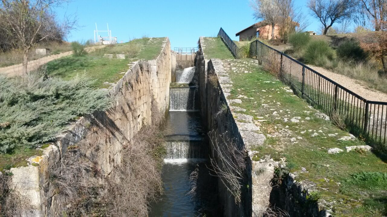 Esclusas 34,35 y 36 del Canal de Castilla a su paso por Soto Alburez en la localidad de Villamuriel de Cerrato.